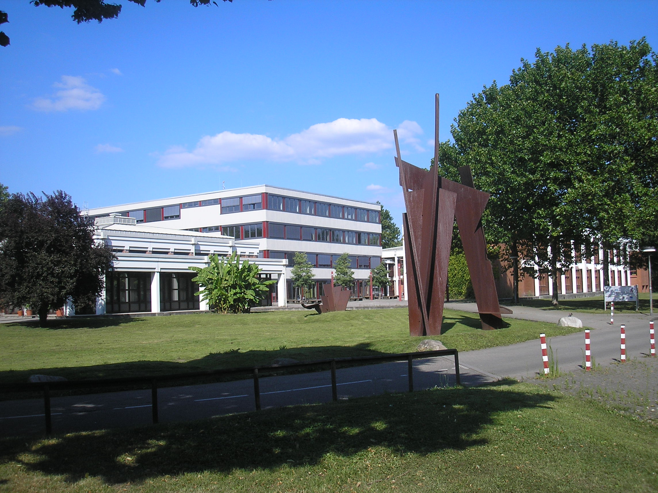 Entrance of Fachhochschule Kehl (today: Hochschule Kehl)